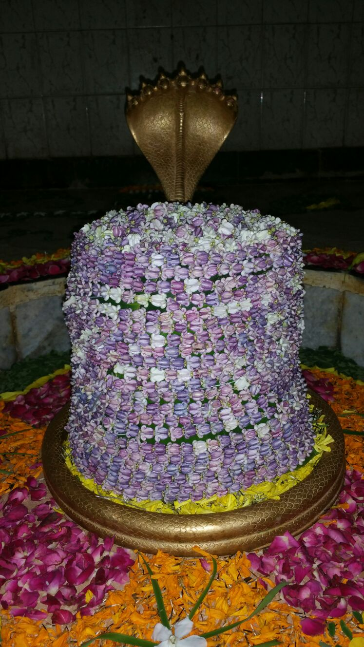 Sangar